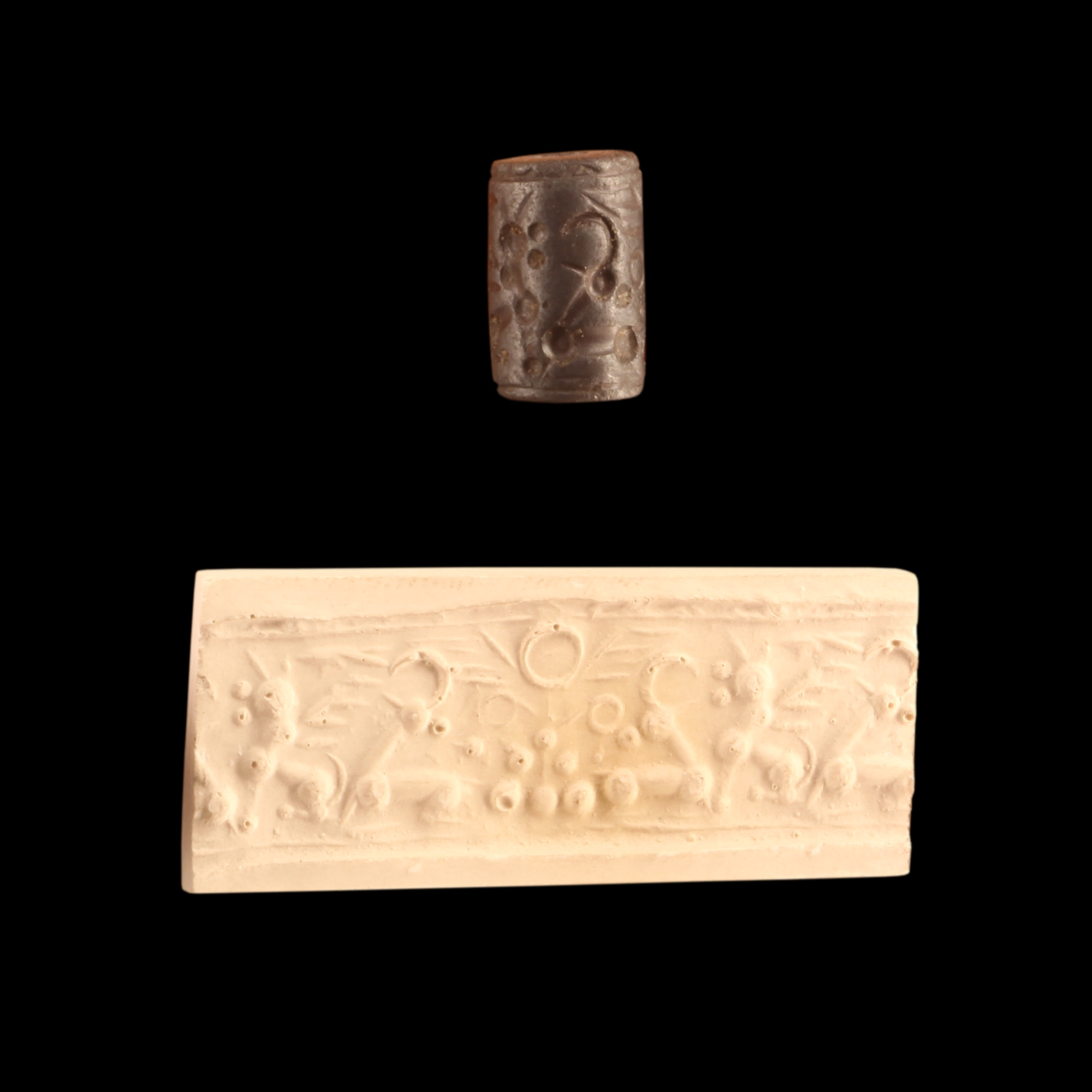 The making of this document was supported by Wikimedia CH. (Submit your project!) For all the files concerned, please see the category Supported by Wikimedia CH. Description Seal: Griffon and Ibex under a winged sun DateMitanni, 1450-1300 BCEMediumHematitCurrent locationMuseum of Fine Arts of Lyon Antiques department, first floor, room 12 Accession number E 342-28 NotesCourtesy of Musée des beaux-arts de LyonSource/PhotographerRamaPermission (Reusing this file)Own work Seal: Griffon and Ibex under a winged sun